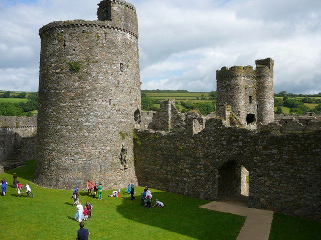 Within Kidwelly Castle CADW